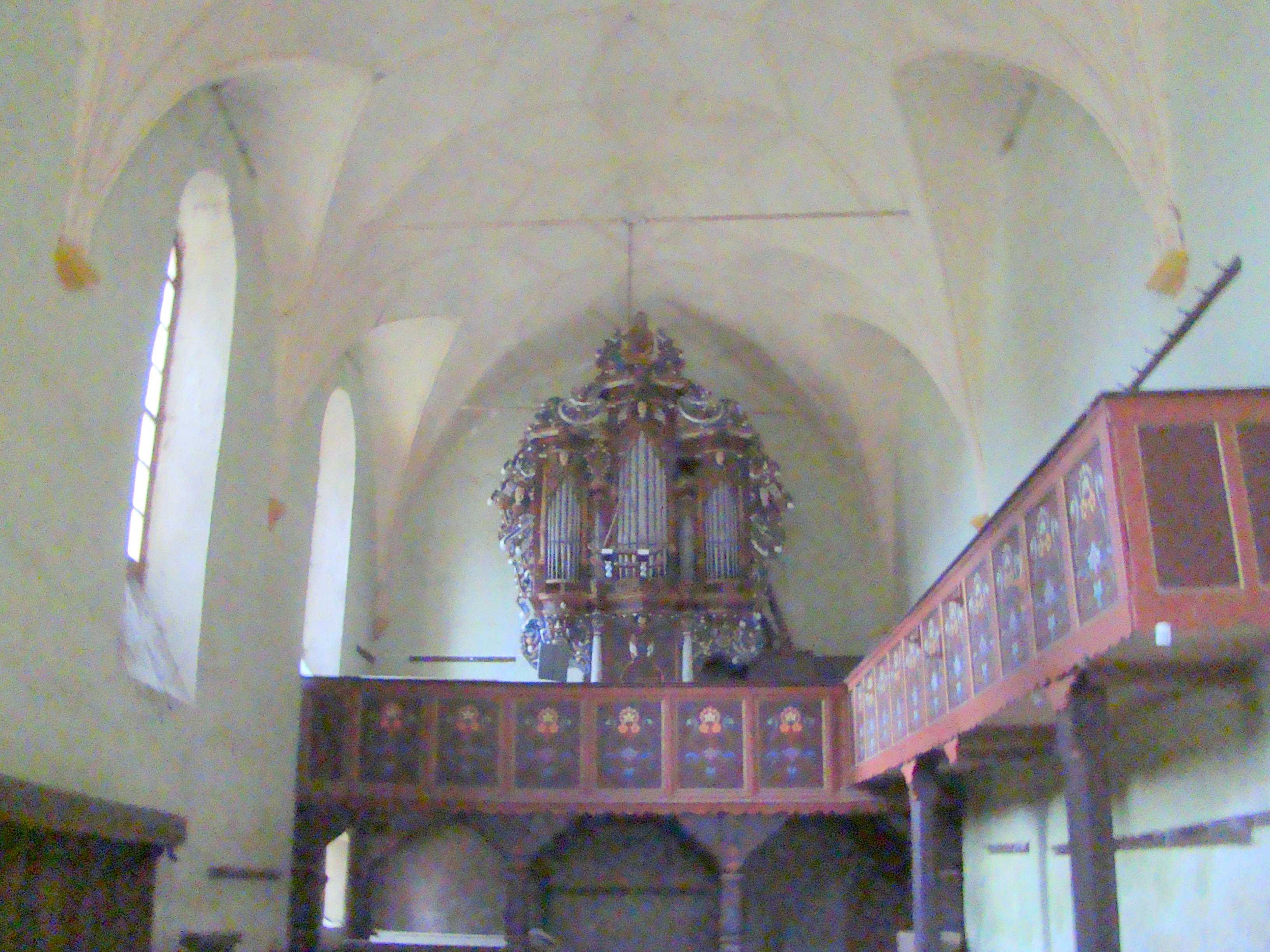 Lutheran church in Dupuș, Sibiu County, Romania